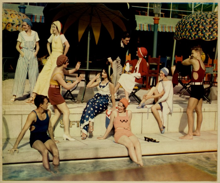 Accession Number: 1971:0050:0046 Maker: Nickolas Muray (American 1892-1965) Title: "LADIES HOME JOURNAL, SWIMSUIT LAYOUT" Date: 1932 Medium: "color print, assembly (Carbro) process" Dimensions: Dimensions Unknown George Eastman House Collection General – information about the George Eastman House Photography Collection is available at . For information on obtaining reproductions go to: .